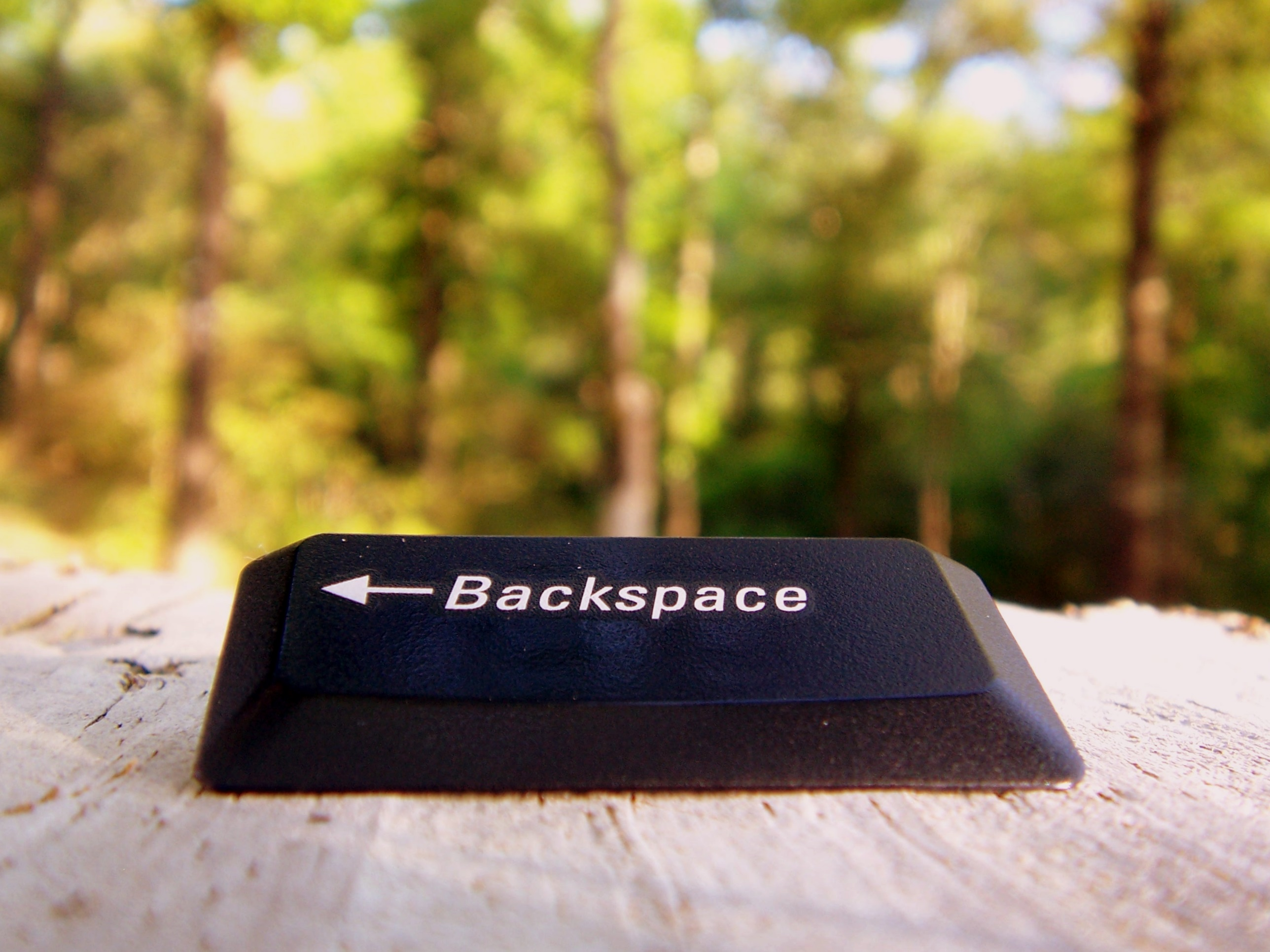 A backspace key on a rock, having been removed from a keyboard. Backspace is the computer key used to delete prior text.